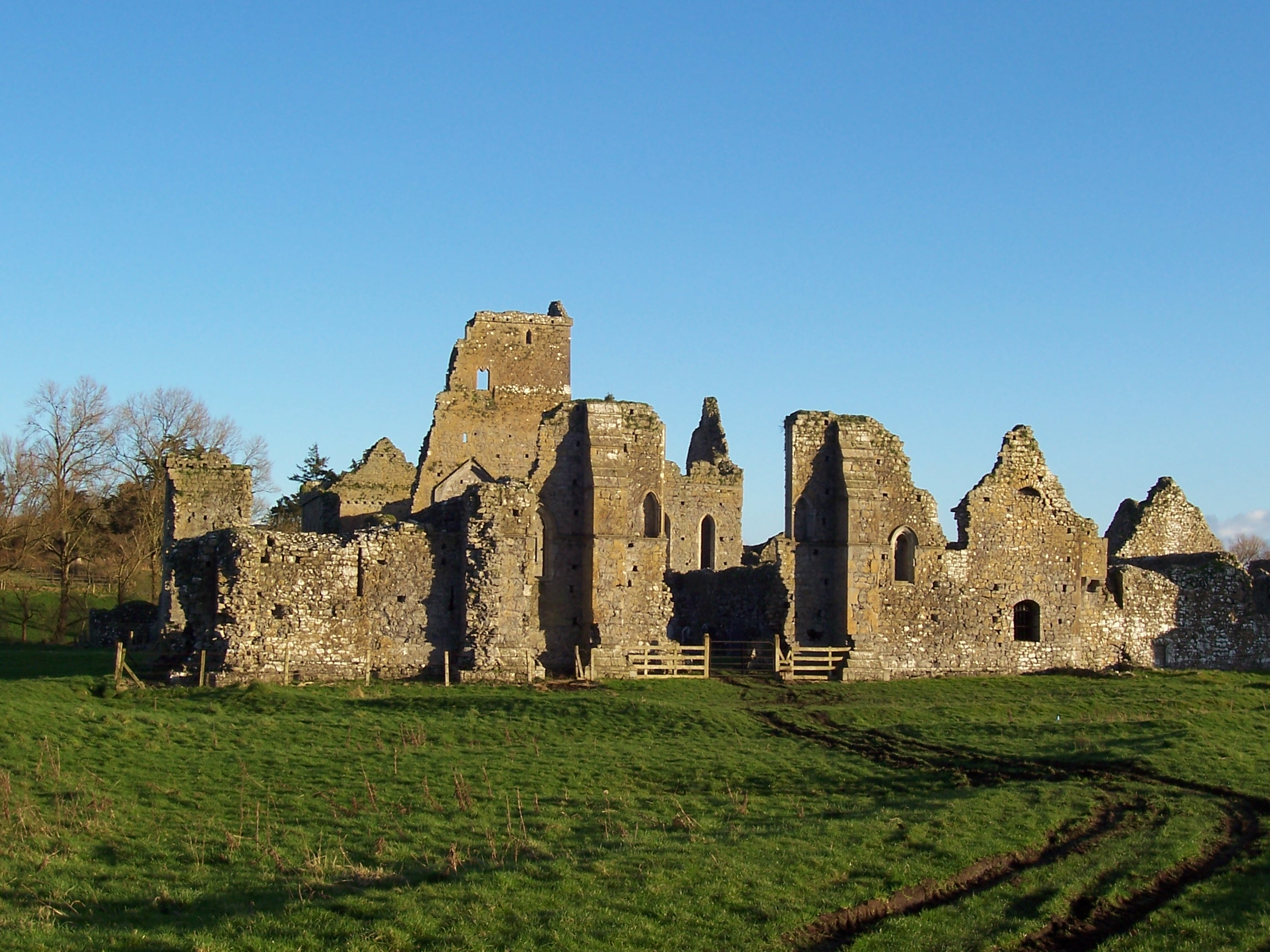 A shot walking in. It was really really muddy.